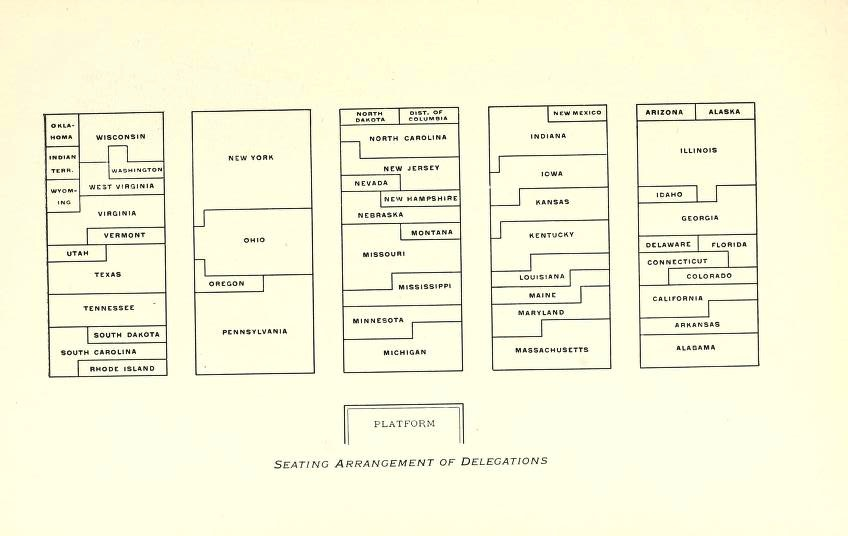 Seating-plan of delegates at the 1896 Democratic National Convention